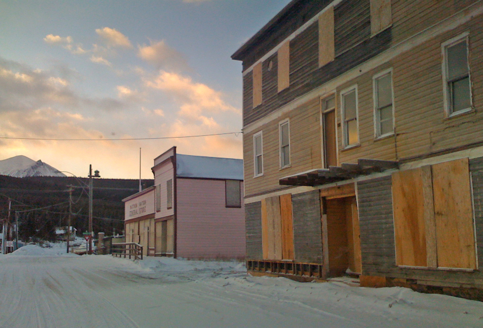 The tourist district of Carcross, Yukon Territory, as seen in winter.